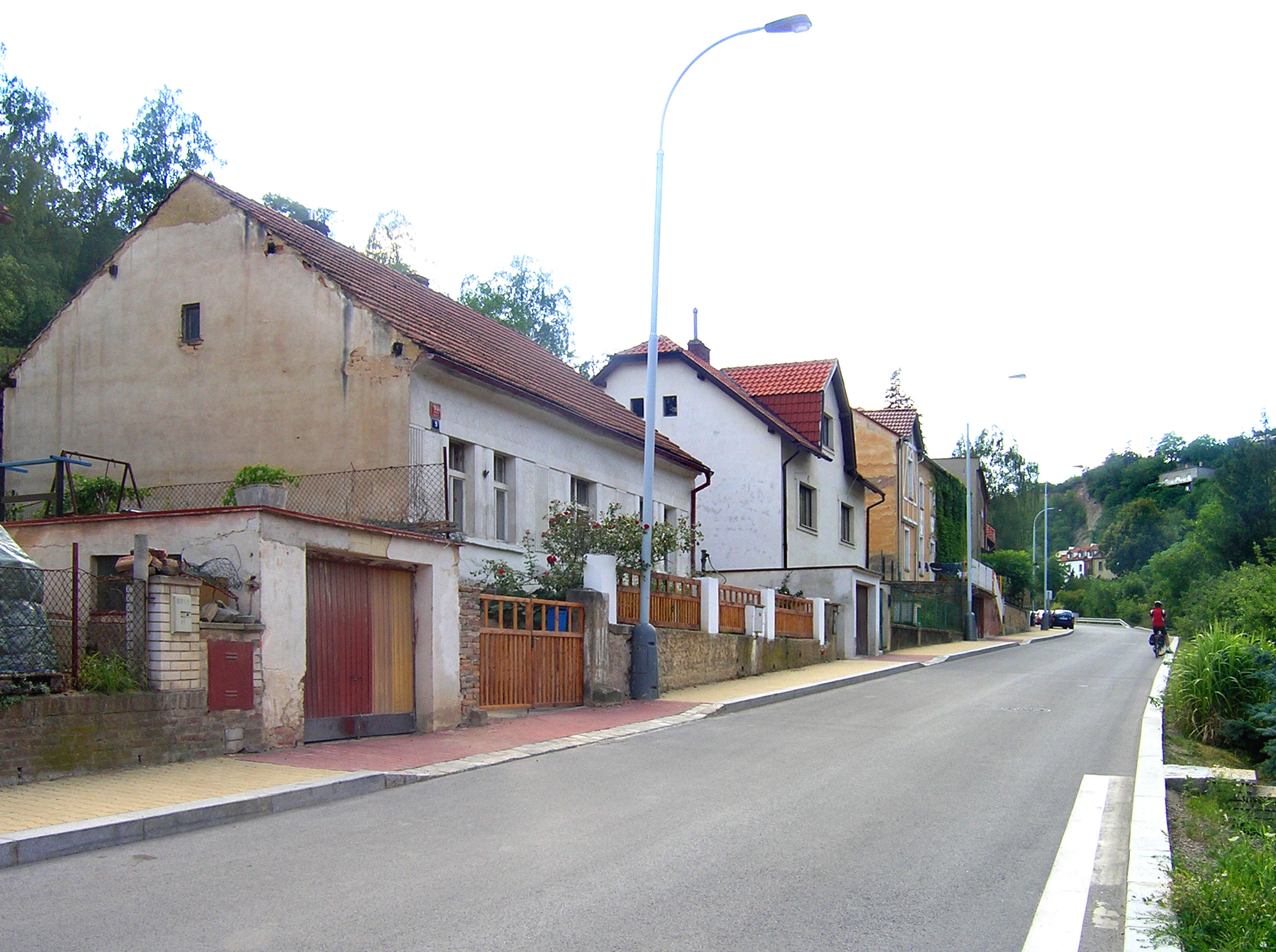 Lysolajské údolí street in Lysolaje, Prague